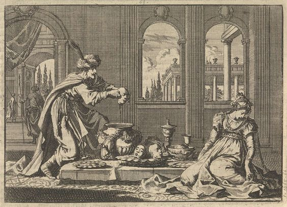 Jan Luyken | 1682 | Shah Safi and his aunt (daughter of shah Abbas) Zibayde Begim. Safi shows her heads of her sons